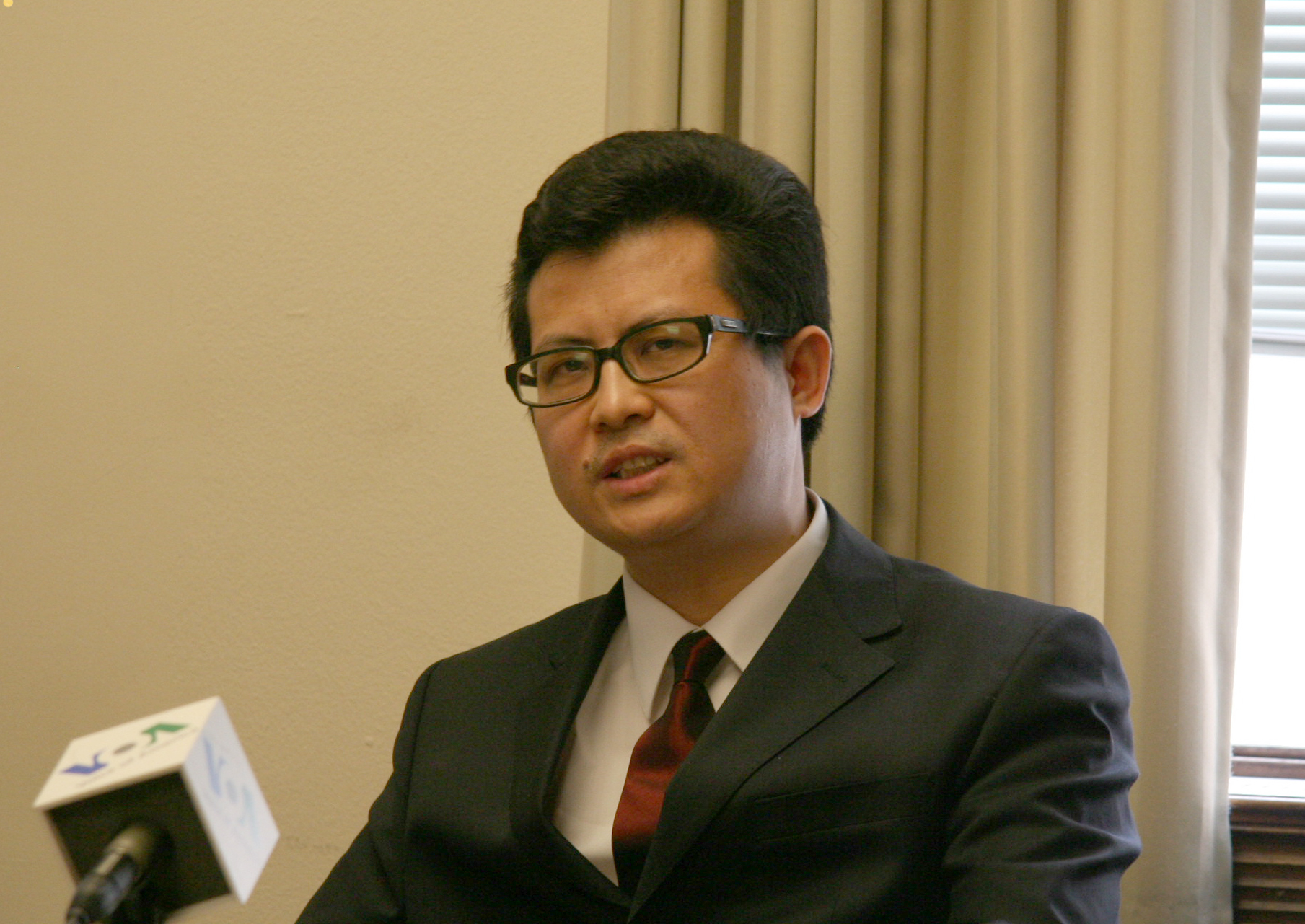 Depicted person: Guo Feixiong – human rights activist